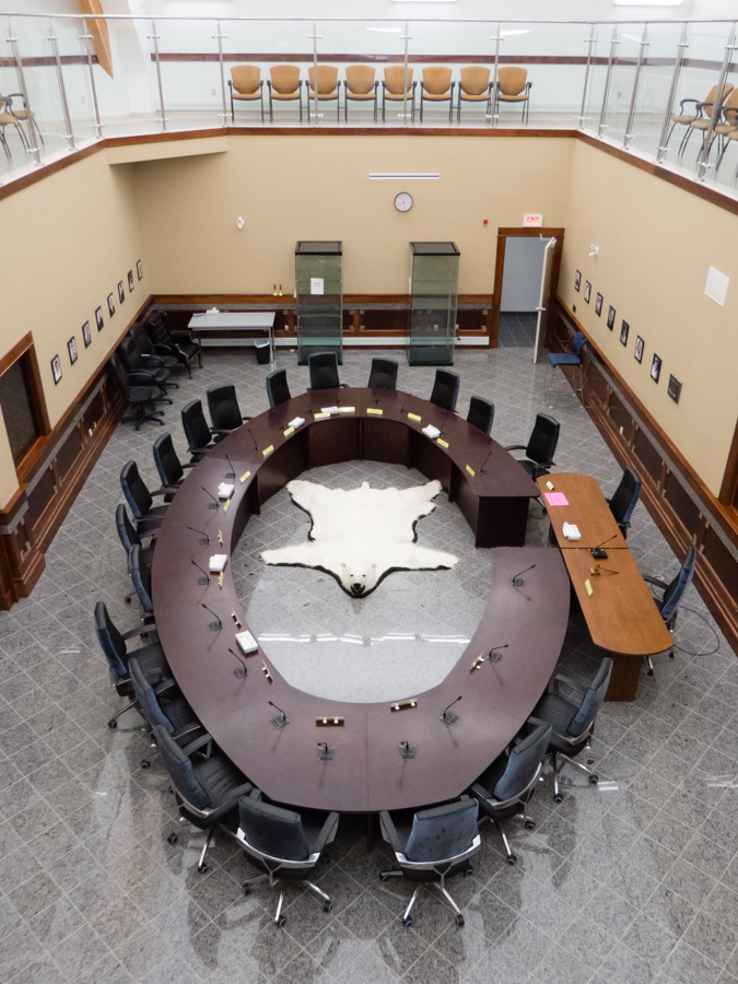 Assembly Chambers in the Nunatsiavut Assembly Building in Hopedale, Nunatsiavut. The floors are tiled with labradorite and the members of the Assembly sit at a table in the shape of an ulu.